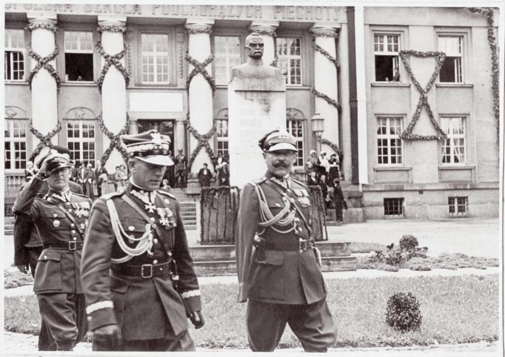 Promotion at the Officer Cadet School for Non-commissioned Officers in Bydgoszcz on August 10, 1934. From the left - Col. Dipl. Władysław Powierza, general div. Mieczysław Norwid-Neugebauer, Col. Dipl. Stefan Kossecki, commander of the School.